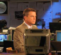 FOX News Channel's Shepard Smith anchoring Studio B